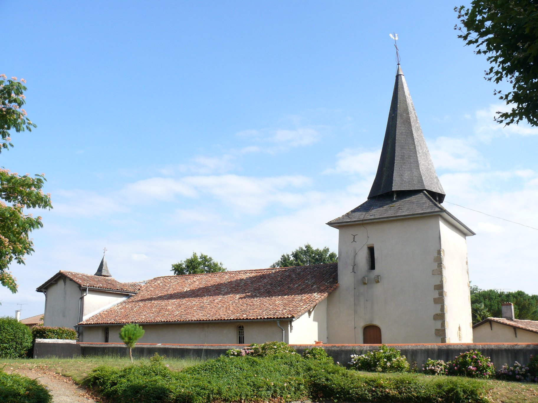 Saint-Laurent's church of Louer (Landes, Aquitaine, France).